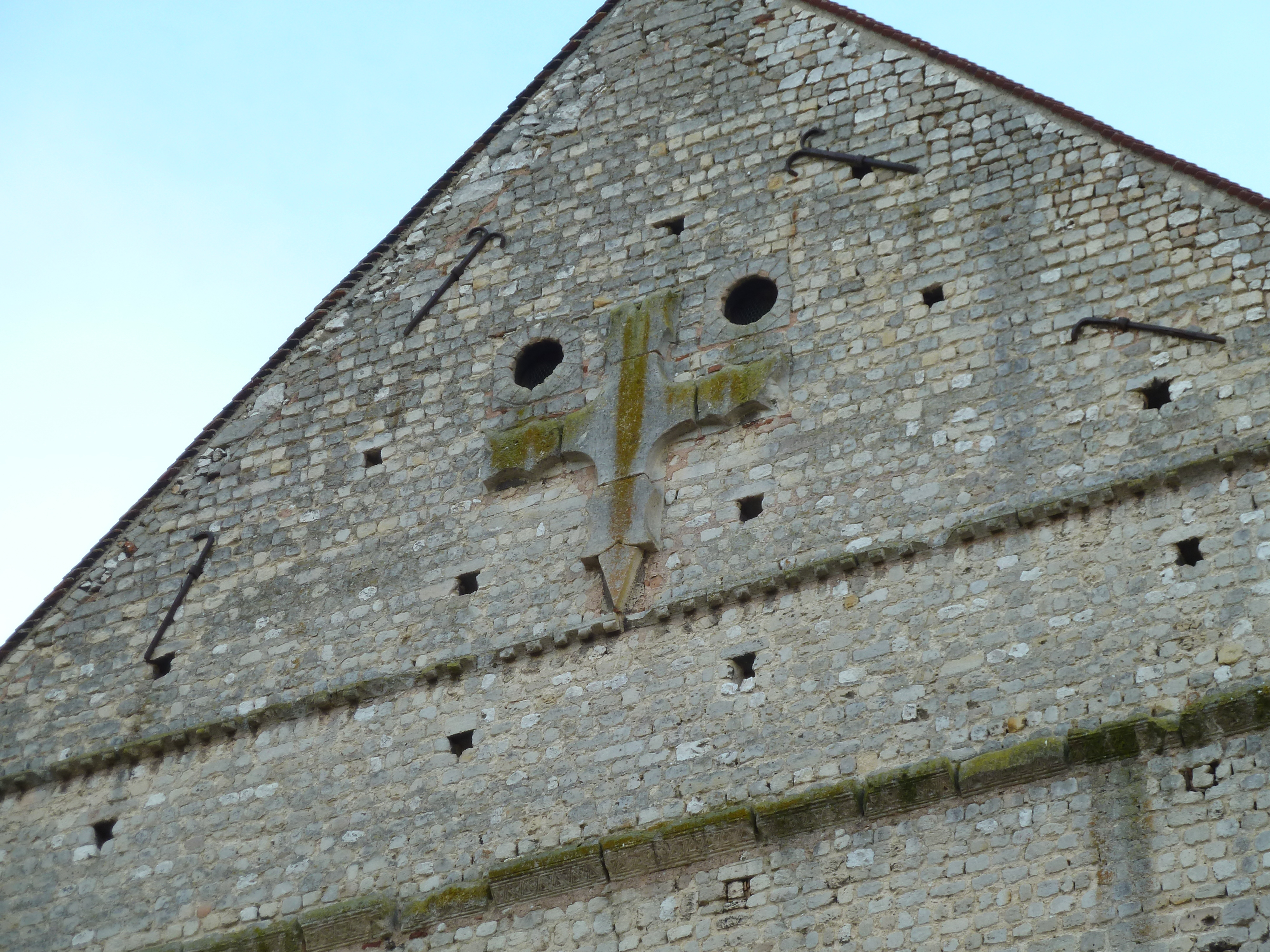 Beauvais (département of Oise, Picardie région, France). Church of Notre-Dame de la Basse Oeuvre (Xth century), former cathedral of Beauvais, partially destroyed for the construction of the Gothic cathedral, which remained unfinished. Upper part of the West Facade.